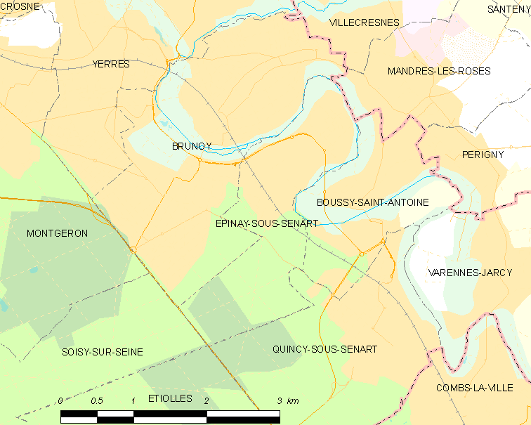 Map of French municipality Épinay-sous-Sénart